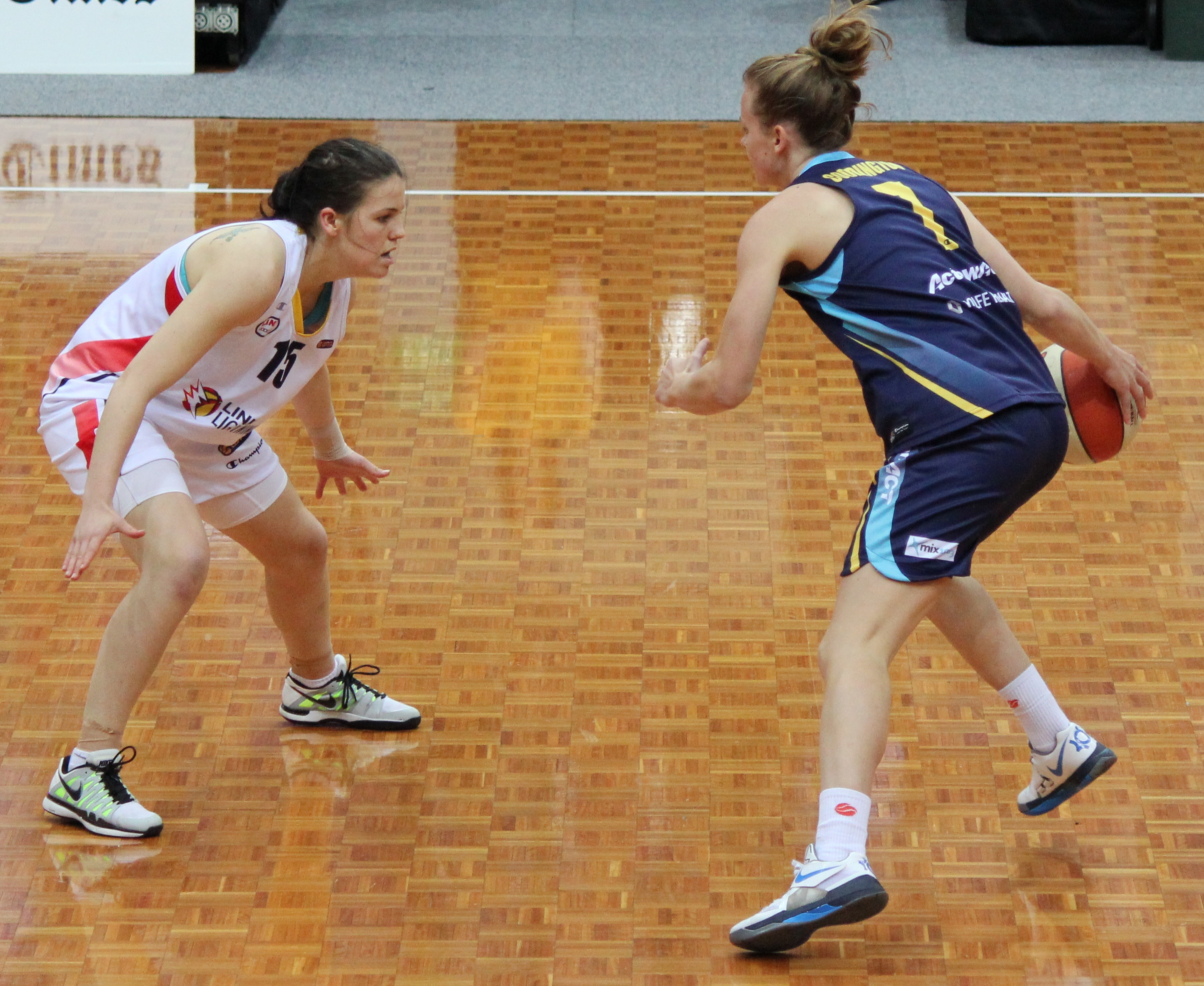 Canberra Capitals versus the Adelaide Lighting on 9 November 2012 at AIS Arena.